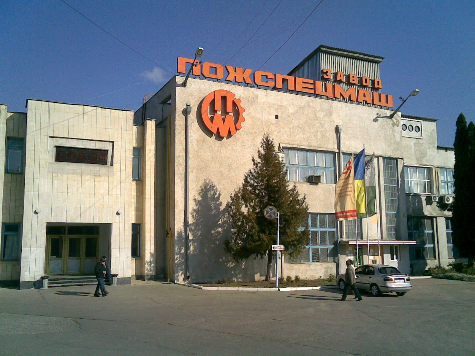 "Pozmashina" factory view from Ladan village central square, Ukraine